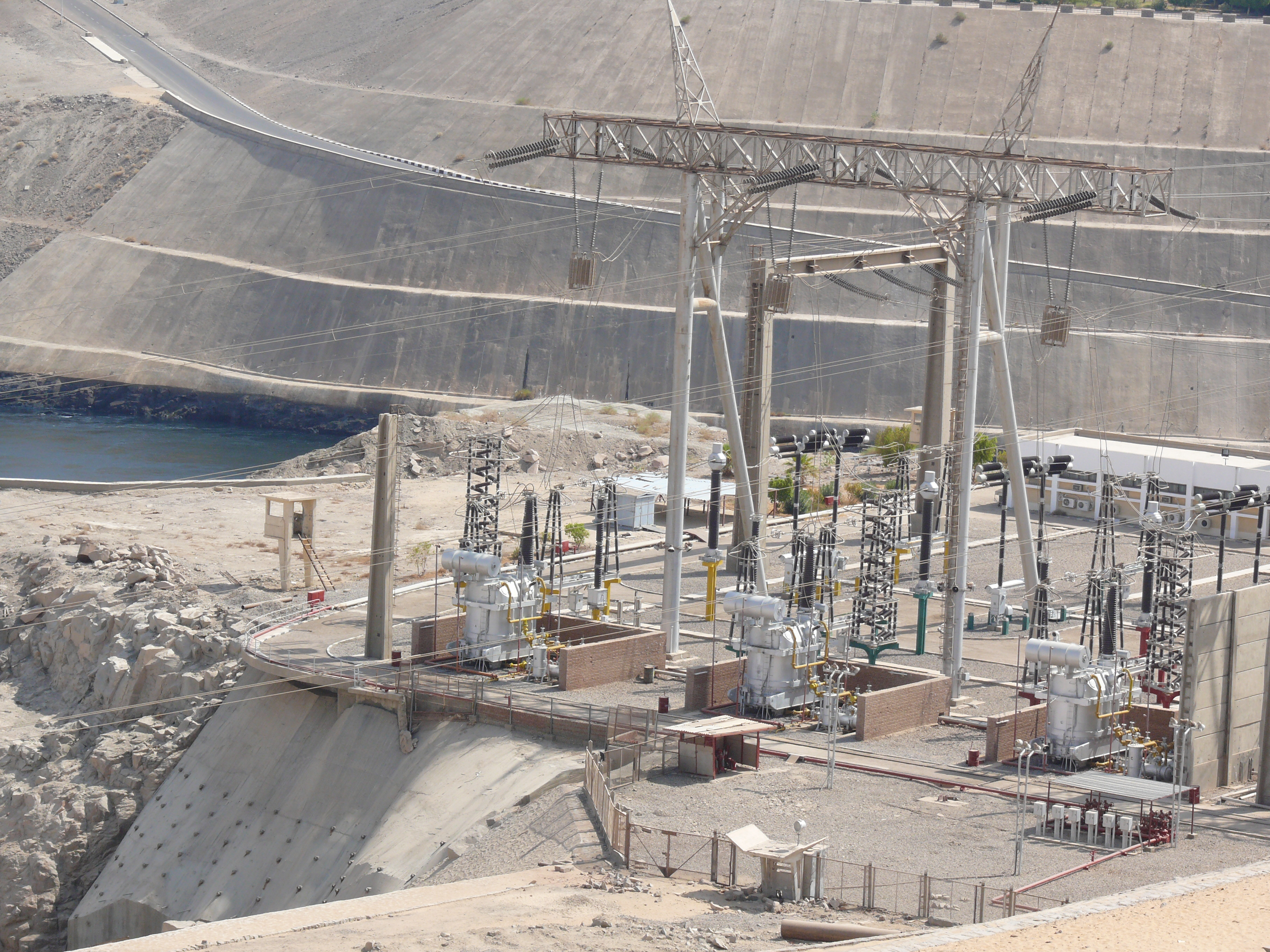 Part of a power plant in the Aswan High Dam.